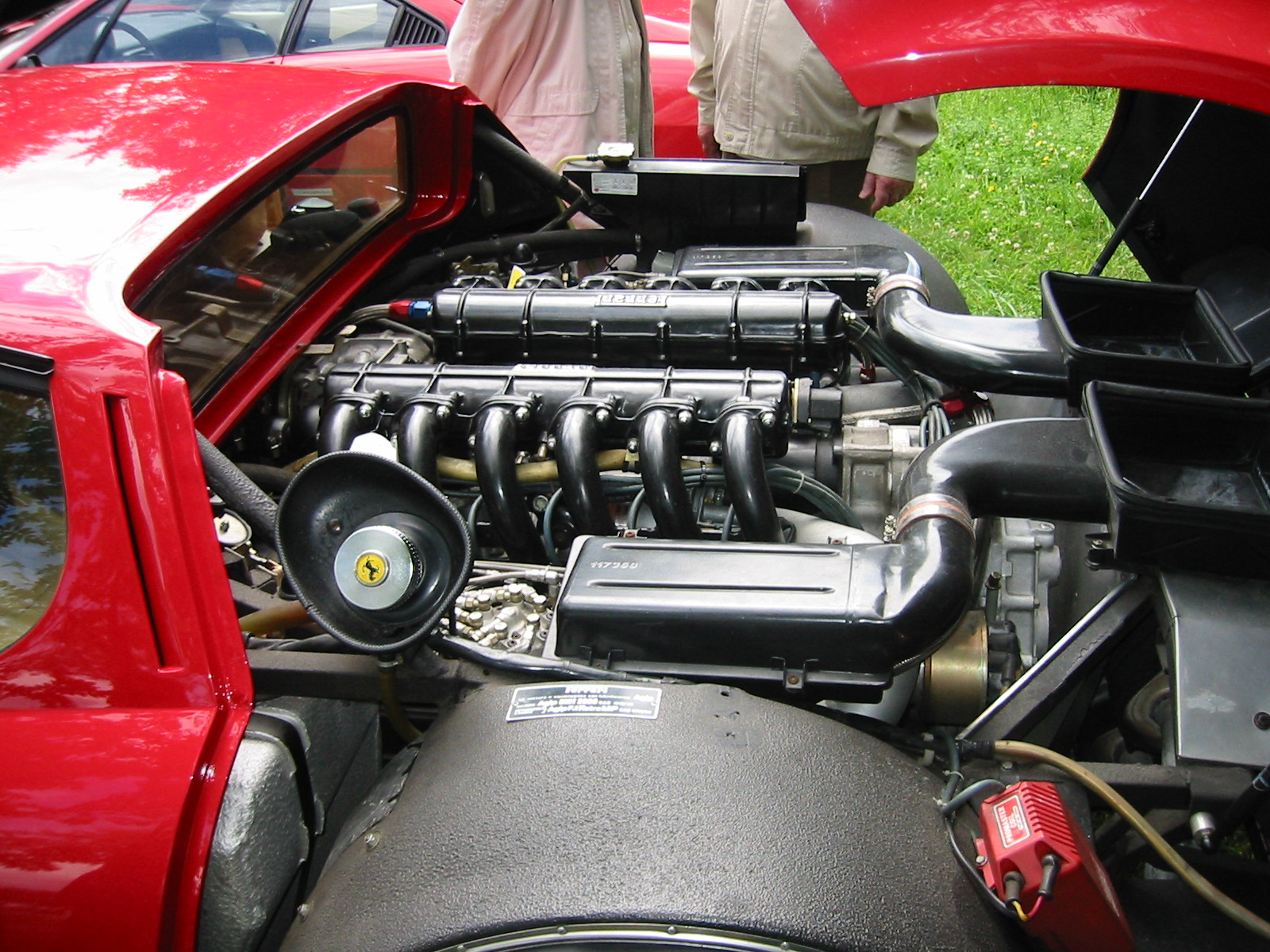 V12-Engine of a Ferrari Berlinetta Boxer (512BBi)